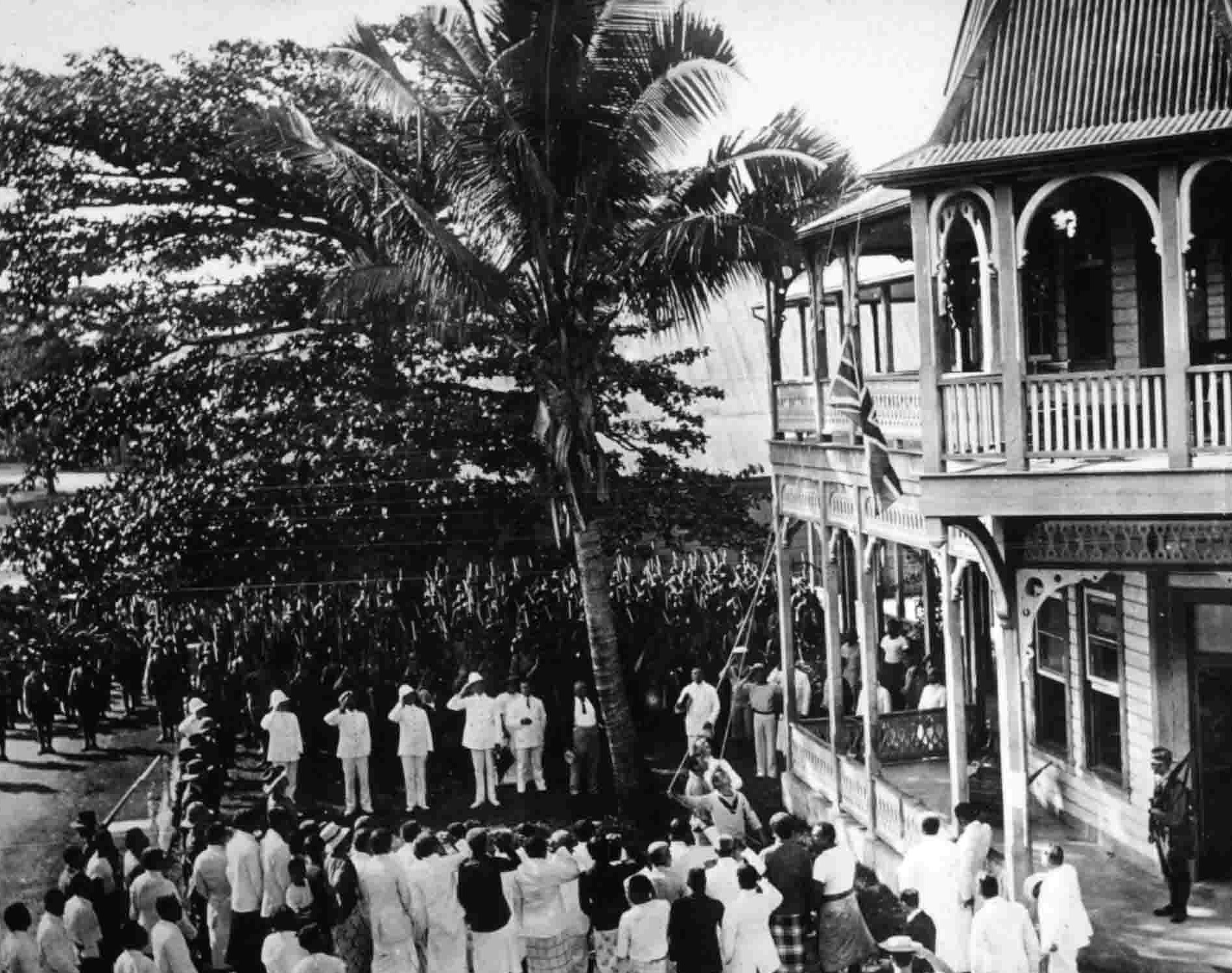 Occupation of German-Samoa at the beginning of World War I. Hoisting of the Union Jack.